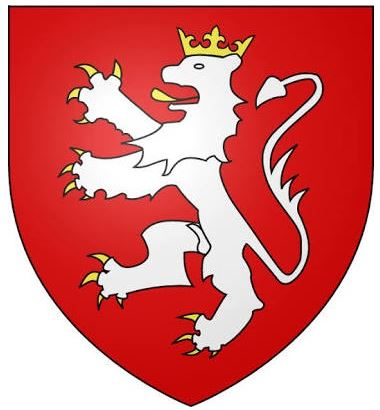 Coat of Arms Clisson Family